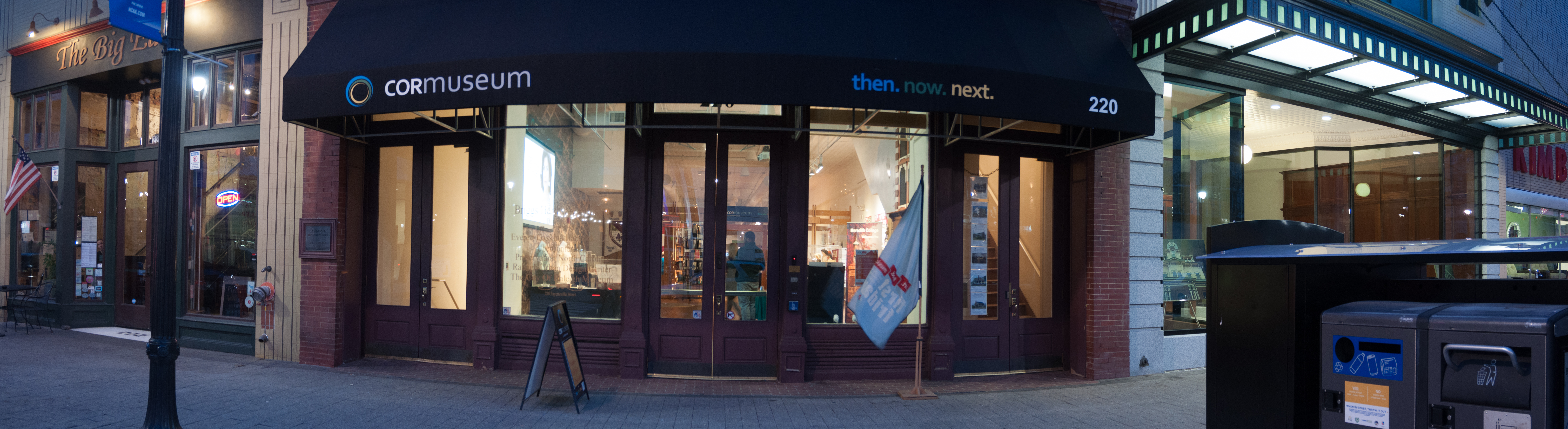 Photo was taken on Fayetteville Street showing the front entrance to the City of Raleigh Museum.